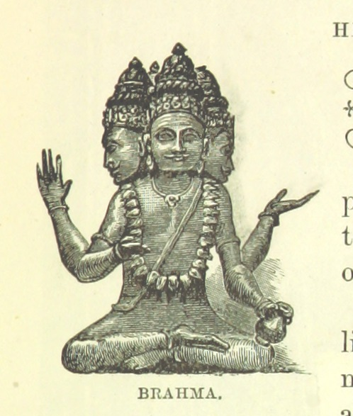 Title: "The Land of Temples: Or Sketches from Our Indian Empire", Shelfmark: "British Library, HMNTS 10058.bbb.18.", Page: 23, Place of Author: Mary Hield, Publishing: London, Date of Publishing: 1882, Publisher: Cassell & Co., Issuance: monographic, Identifier: 002064912.